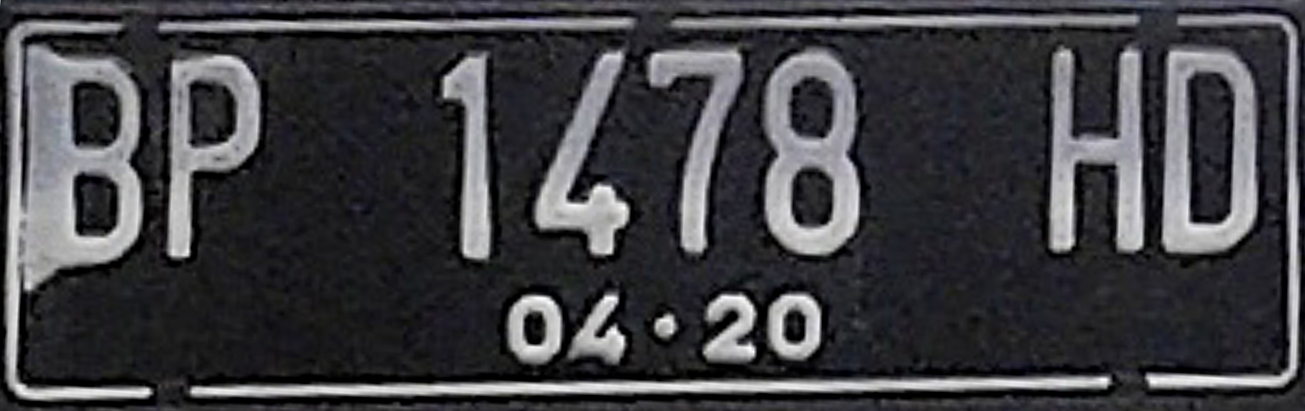 Vehicle Registration plate number of Batam, Indonesia.